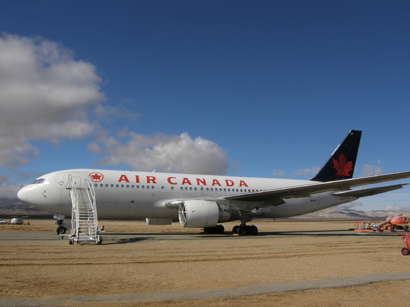 Air Canada 767 C-GAUN, fin 604, the famous Gimli Glider, in repose after retirement at Mojave. From my article on the plane at Mojave Skies, the content of which is licensed under Creative Commons